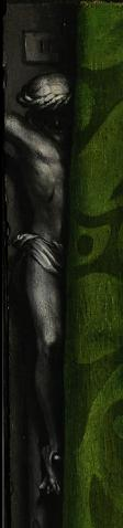 Holbein Ambassadeurs detail crucifix